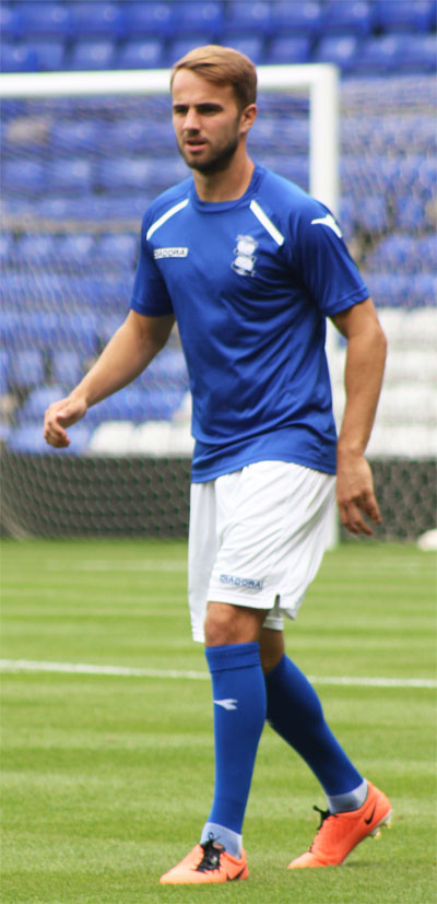 Andrew Shinnie in 2013 pre-season.